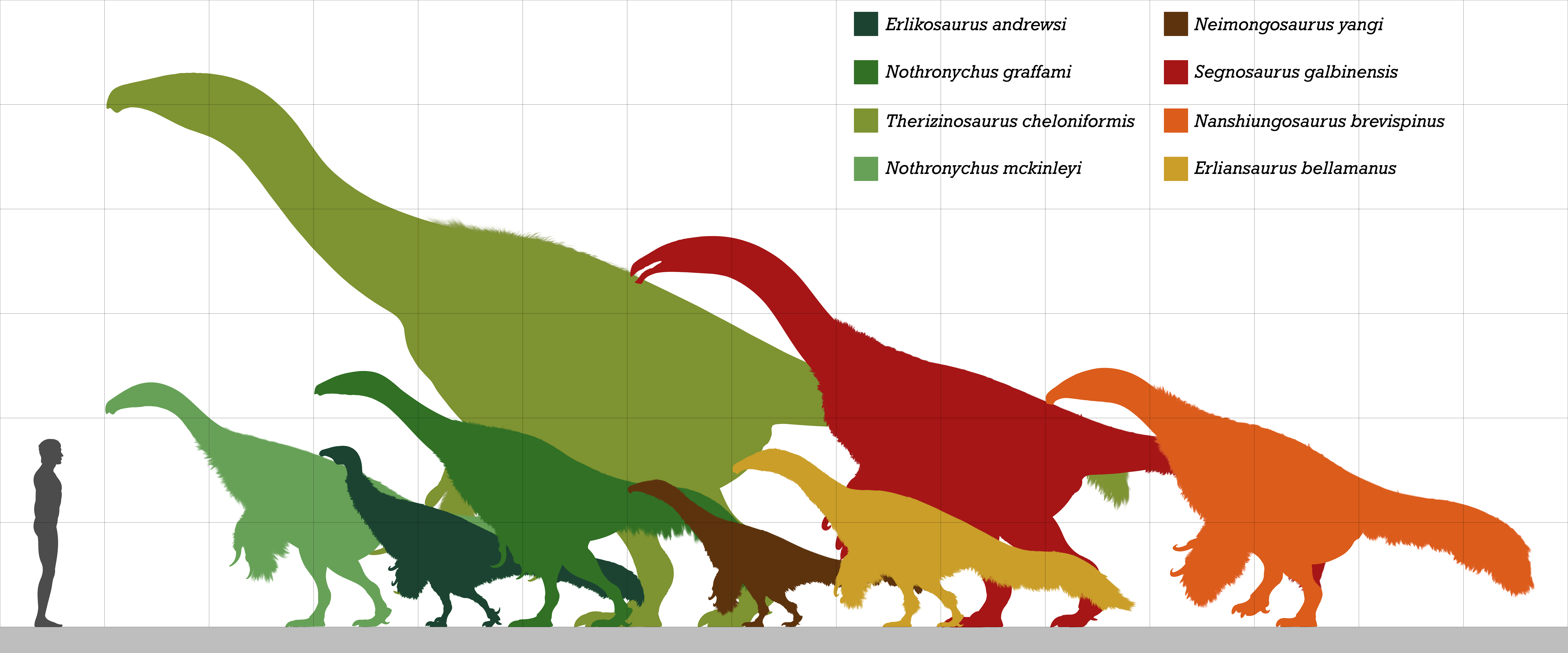 Size comparison between the currently regarded members of the theropod family Therizinosauridae and a 1.8 m (5.9 ft) tall human.[1][2] Estimates follow a mix of Thomas Holtz 2012 and Gregory S. Paul 2016:[3][4] Color Key Erliansaurus bellamanus = 4 m (13 ft)[4] Erlikosaurus andrewsi = 3.4 m (11 ft)[3] Nanshiungosaurus brevispinus = 5 m (16 ft)[4] Neimongosaurus yangi = 3 m (9.8 ft)[4] Nothronychus graffami = 4.2 m (14 ft)[4] Nothronychus mckinleyi = 4.2 m (14 ft)[4] Segnosaurus galbinensis = 7 m (23 ft)[3] Therizinosaurus cheloniformis = 10 m (33 ft)[4]